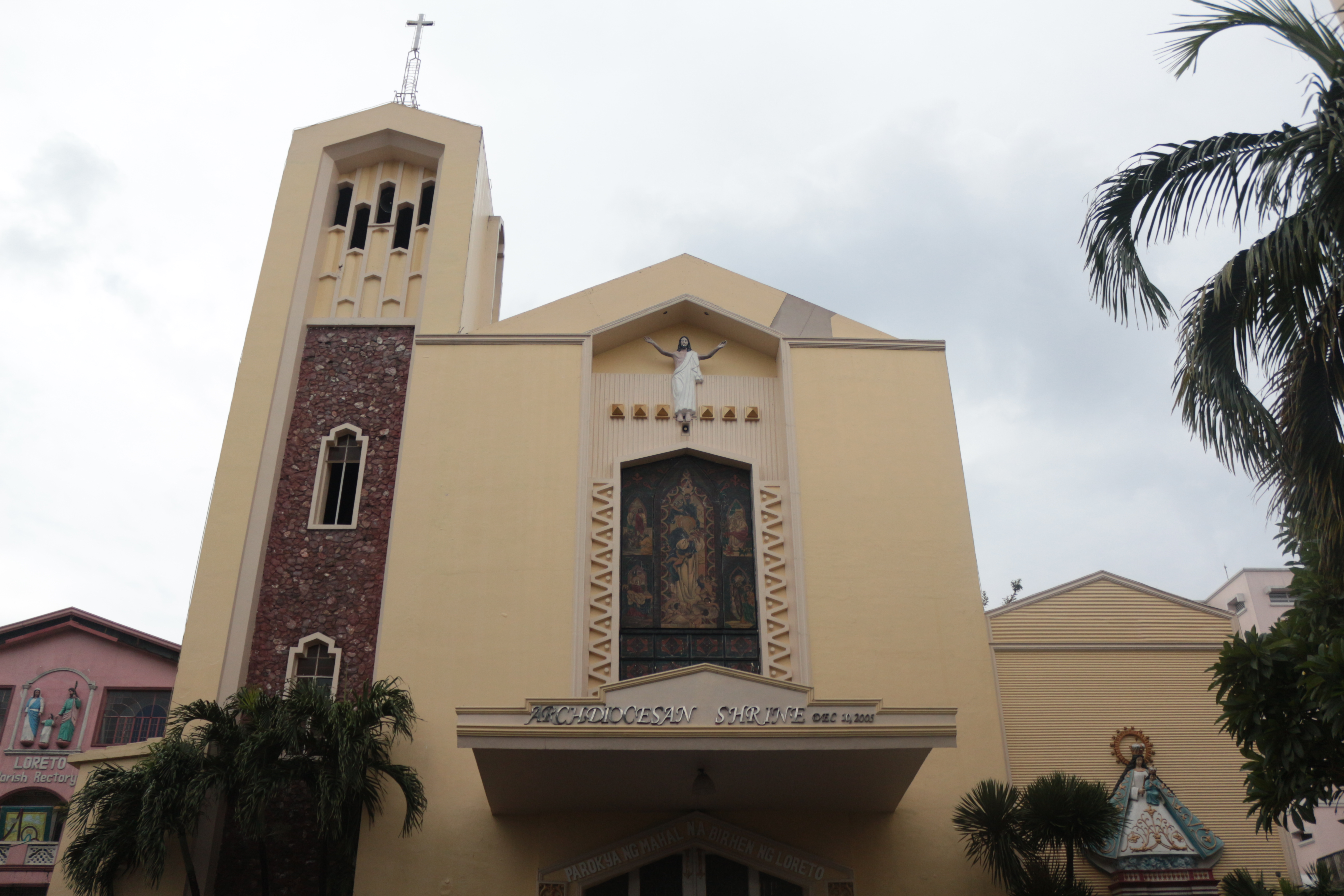 church facade